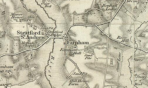 Image from Ordnance Survey map of Farnham dating 1837.